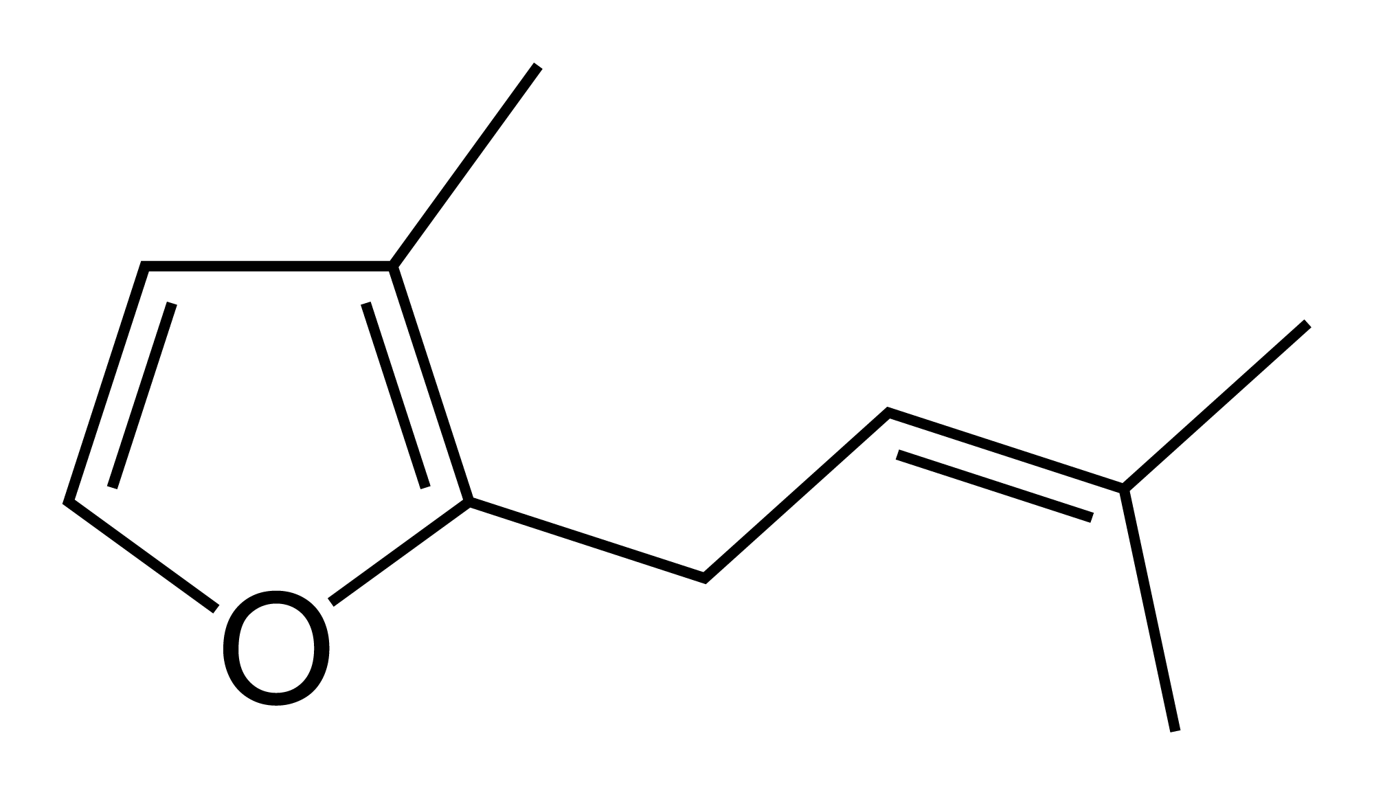 Skeletal formula of the rosefuran molecule, C10H14O. Structure and synthesis reported in B. M. Trost, J. A. Flygare, J. Org. Chem. (1994) 59, 1078–1082.